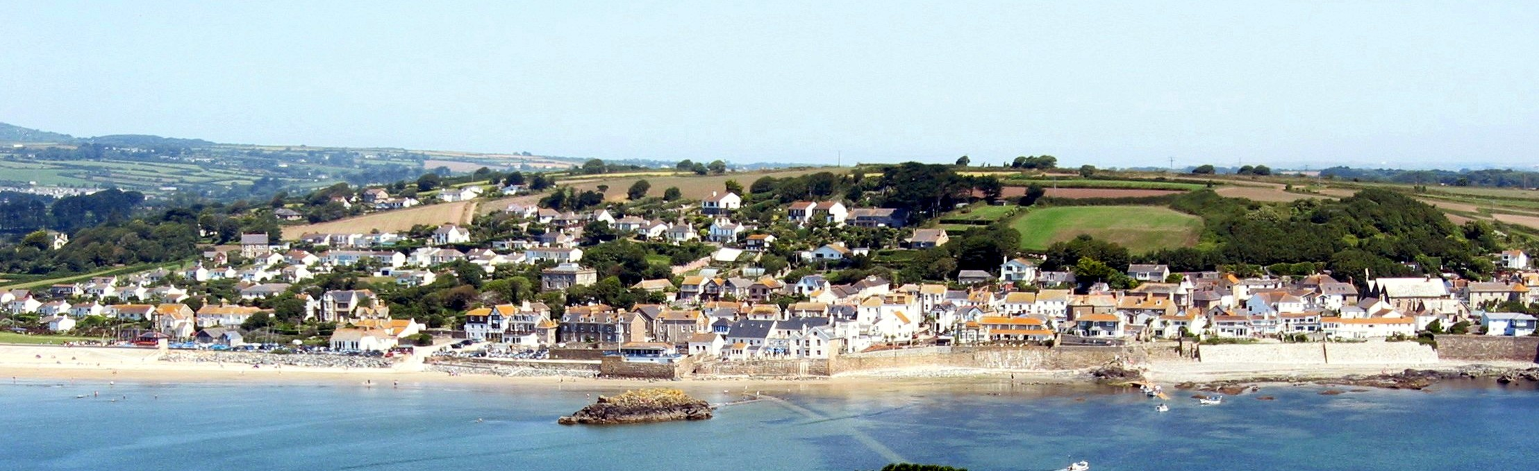 Marazion, Cornwall taken from St Michael's Mount. Own work Shropman 19:40, 27 February 2007 (UTC)